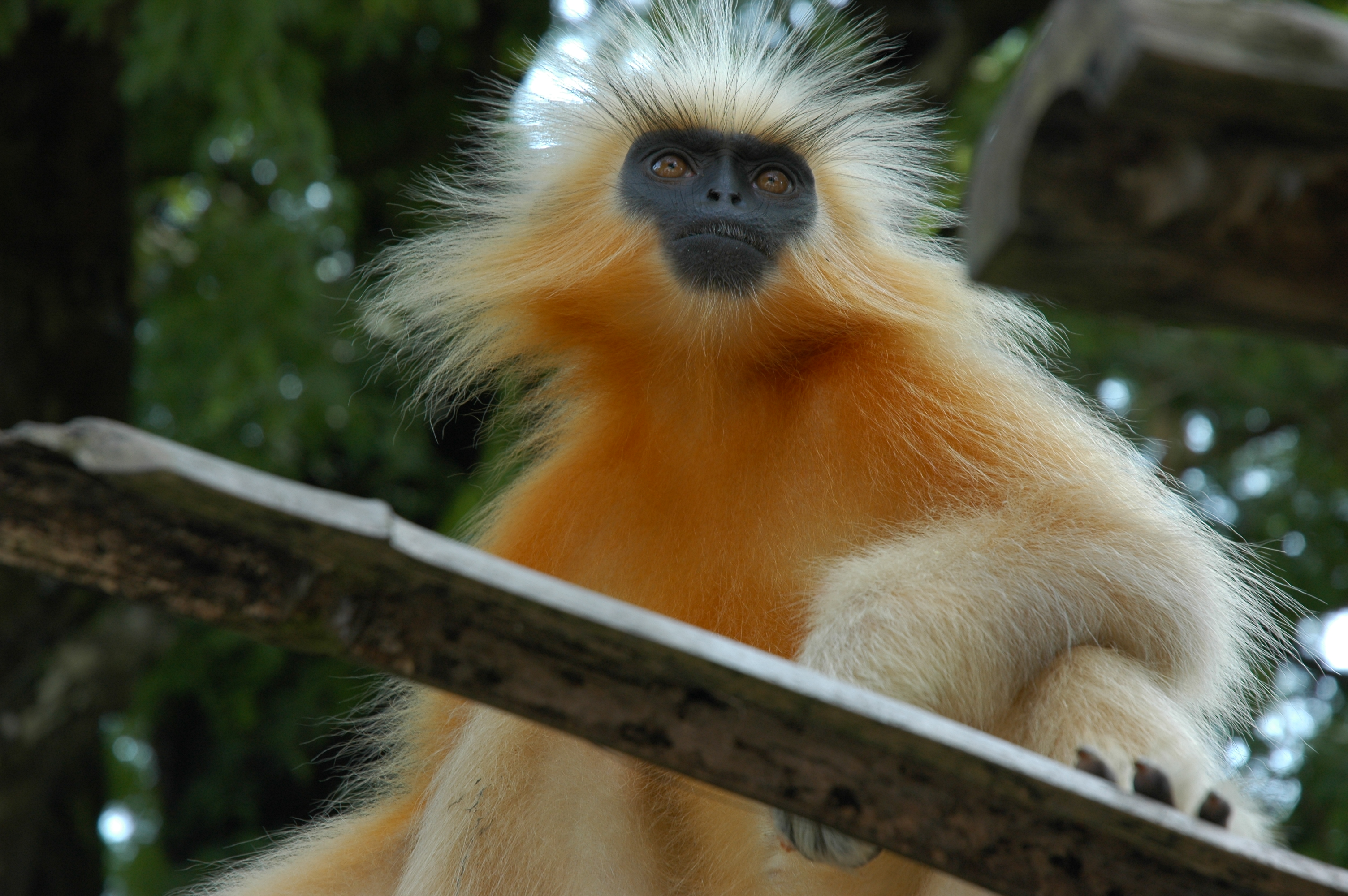 The Golden Langur (Trachypithecus geei) has been declared an endangered species. I found these langurs on Umananda Island in the Brahmaputra River, next to the bustling city of Guwahati, Assam state, India. Their striking color and long tails make them quite attractive, and visitors to the island's temple are happy to indulge them with biscuits and cake.